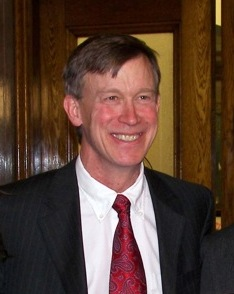 Head shot of Denver, Colorado mayor John Hickenlooper